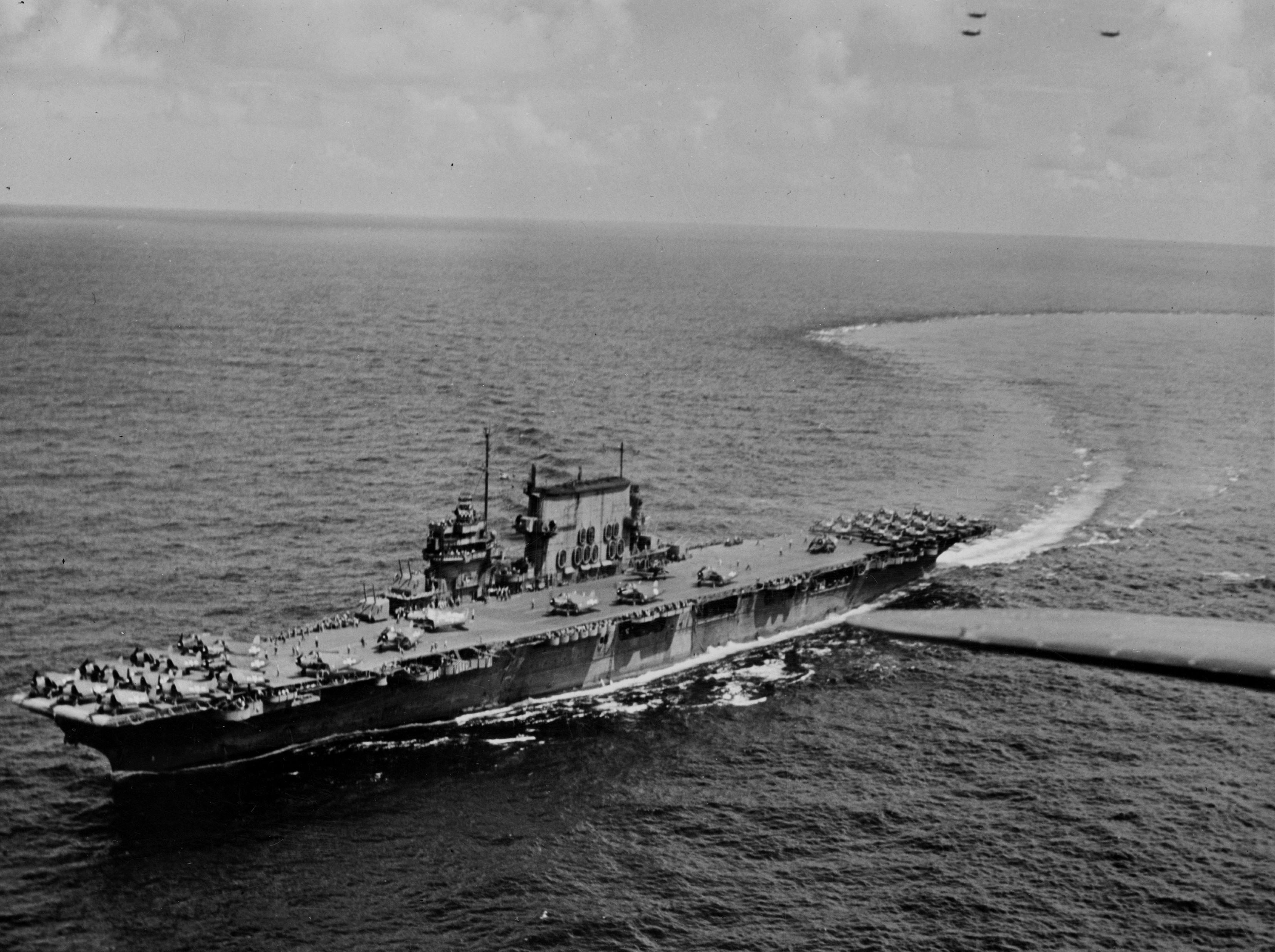 The U.S. Navy aircraft carrier USS Saratoga (CV-3) in 1943/44. The photo was taken from one of her planes of Carrier Air Group 12 (CVG-12), of which many aircraft are visible on deck, Douglas SBD Dauntless dive bombers (aft), Grumman F6F Hellcat fighters (mostly forward), and Grumman TBF Avenger torpedo bombers.